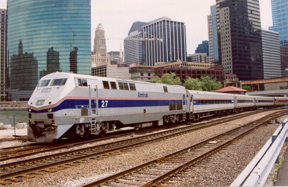 Amtrak P42 #27 with Hiawatha Service near Lake St. Tower in Chicago, September 2001